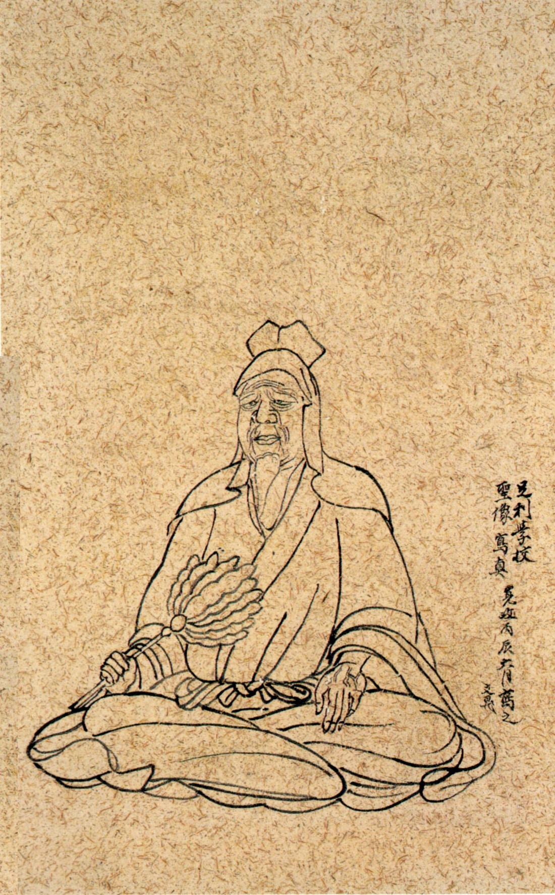 Confucius by Tani Buncho